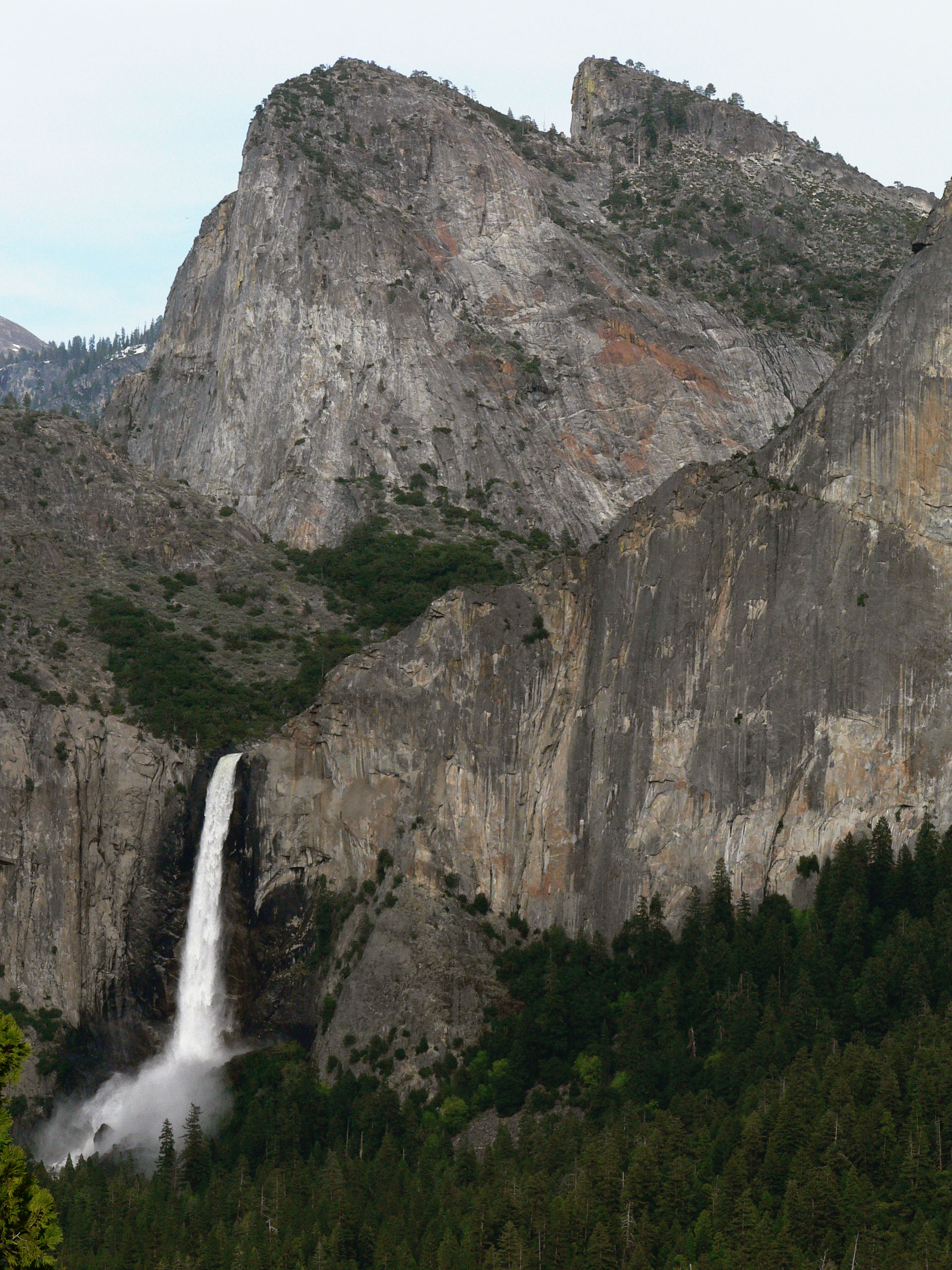 Bridalveil Fall, taken from Discovery View, Wawona Road, Yosemite National Park, at 4,400 feet (1,300 m) elevation.